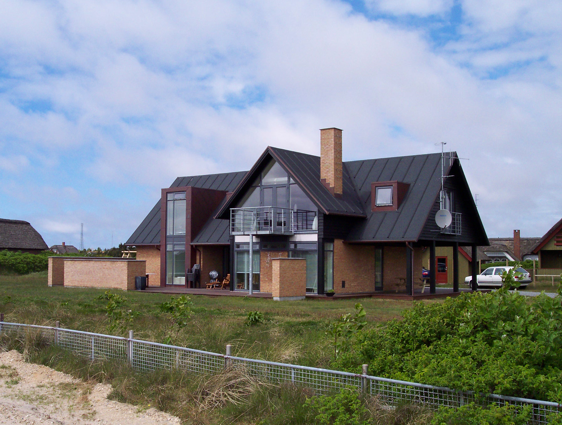 Summary: Nordic Single Family House - Nordisches Einfamilienhaus Author: Boereck Source: Own Private Picture